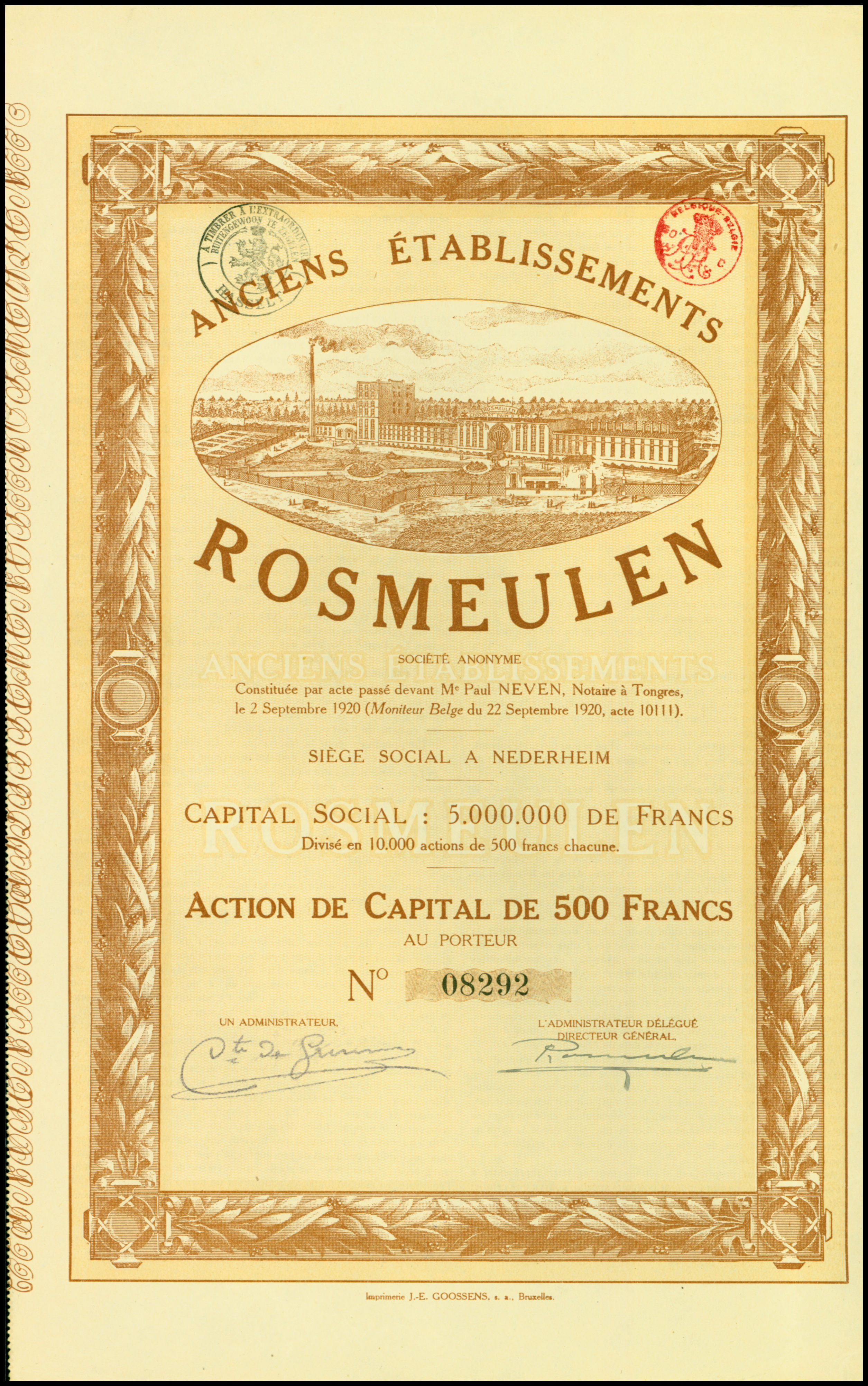 Share of the Anciens Établissements Rosmeulen, issued 22. September 1922